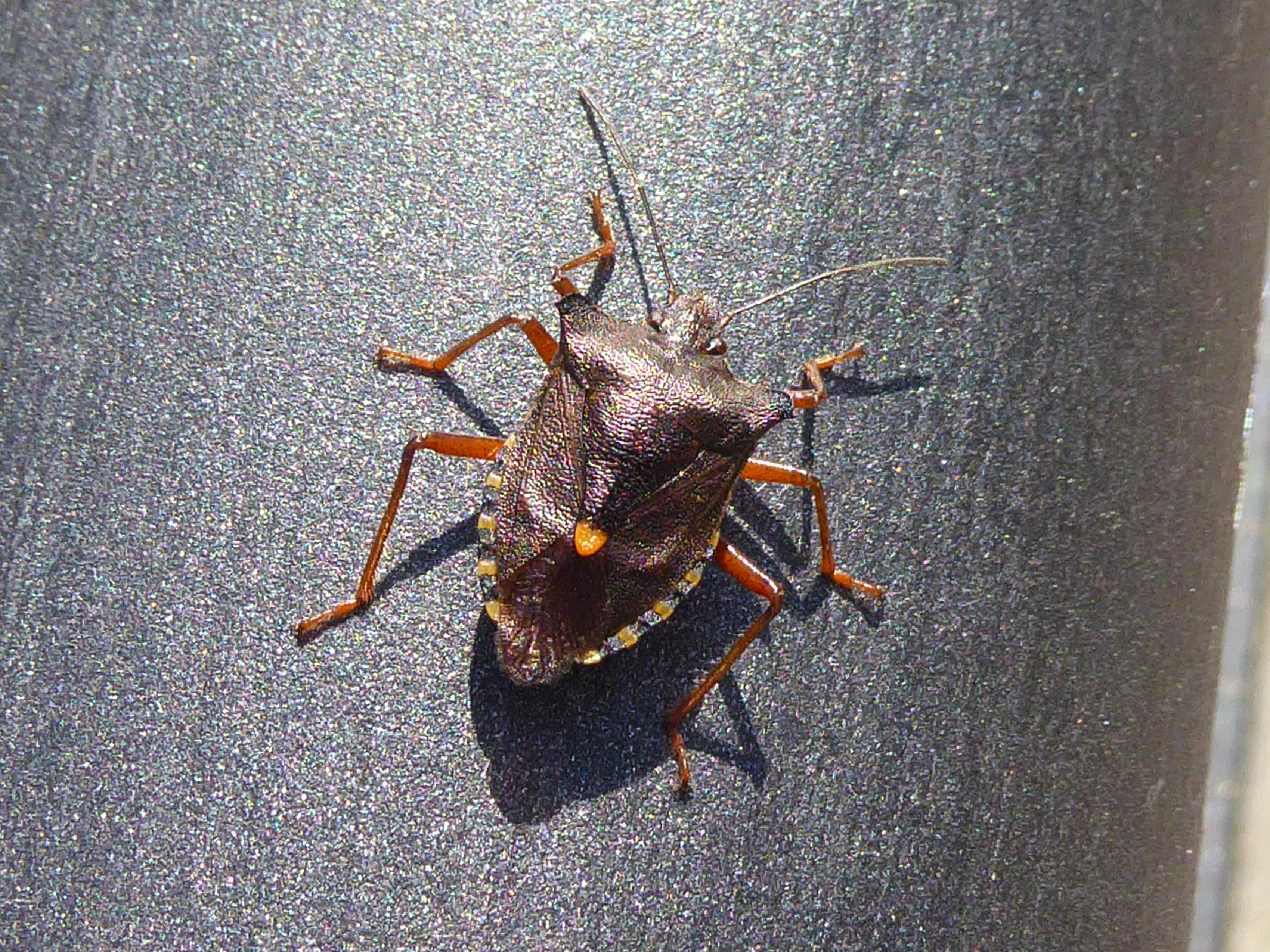 Pentatoma rufipes photographed in Calcercanica al Lago (Trentino, Italy)